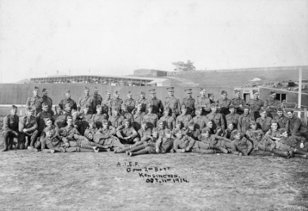 AWM caption : KENSINGTON, NSW, 1914-10-11. GROUP PORTRAIT OF C COMPANY 2ND BATTALION. NO. 736 LANCE CORPORAL EDWARD MICHAEL FITZGERALD (UNCLE OF DONOR) IS SHOWN ELEVENTH FROM THE RIGHT, 2ND BACK ROW. FITZGERALD SAILED WITH THE 2ND BATTALION ON S.S. SUFFOLK, LEAVING SYDNEY ON 1914-10-18. HE SERVED AT GALLIPOLI AND FRANCE AND DIED OF WOUNDS IN 1917. BURIED IN BOSCOMBE, U.K.